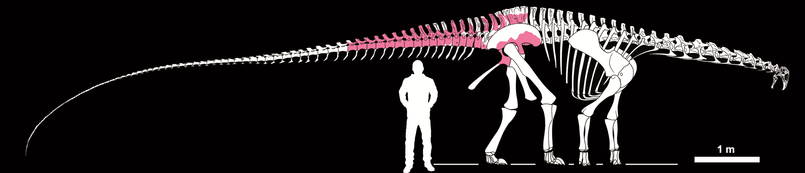 Skeletal reconstruction of Tataouinea hannibalis, with missing elements based on other known nigersaurines.